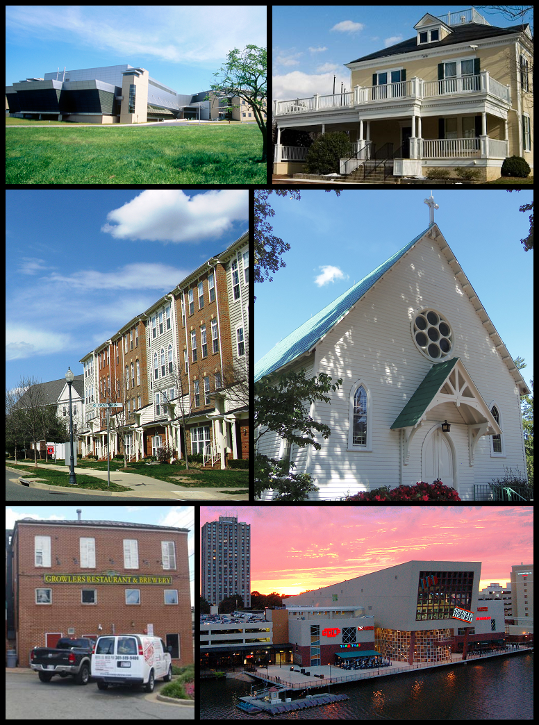 A photographic montage of Gaithersburg, Maryland, designed for use in Wikipedia infoboxes and the like.